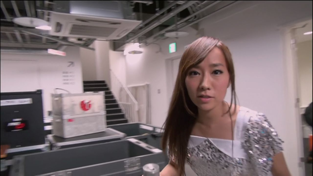 Japanese voice actress and singer Ayahi Takagaki during the Sphere Eternal Live Tour 2014